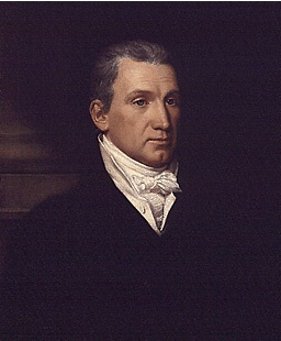 Portrait of James Monroe